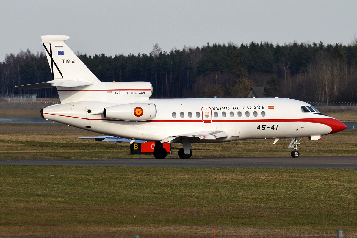 Spanish Air Force, T.182, Dassault Falcon 900